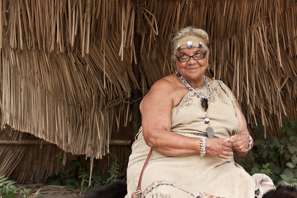 Woman at Wampanoag village, Plimoth Plantation in Plymouth, MA